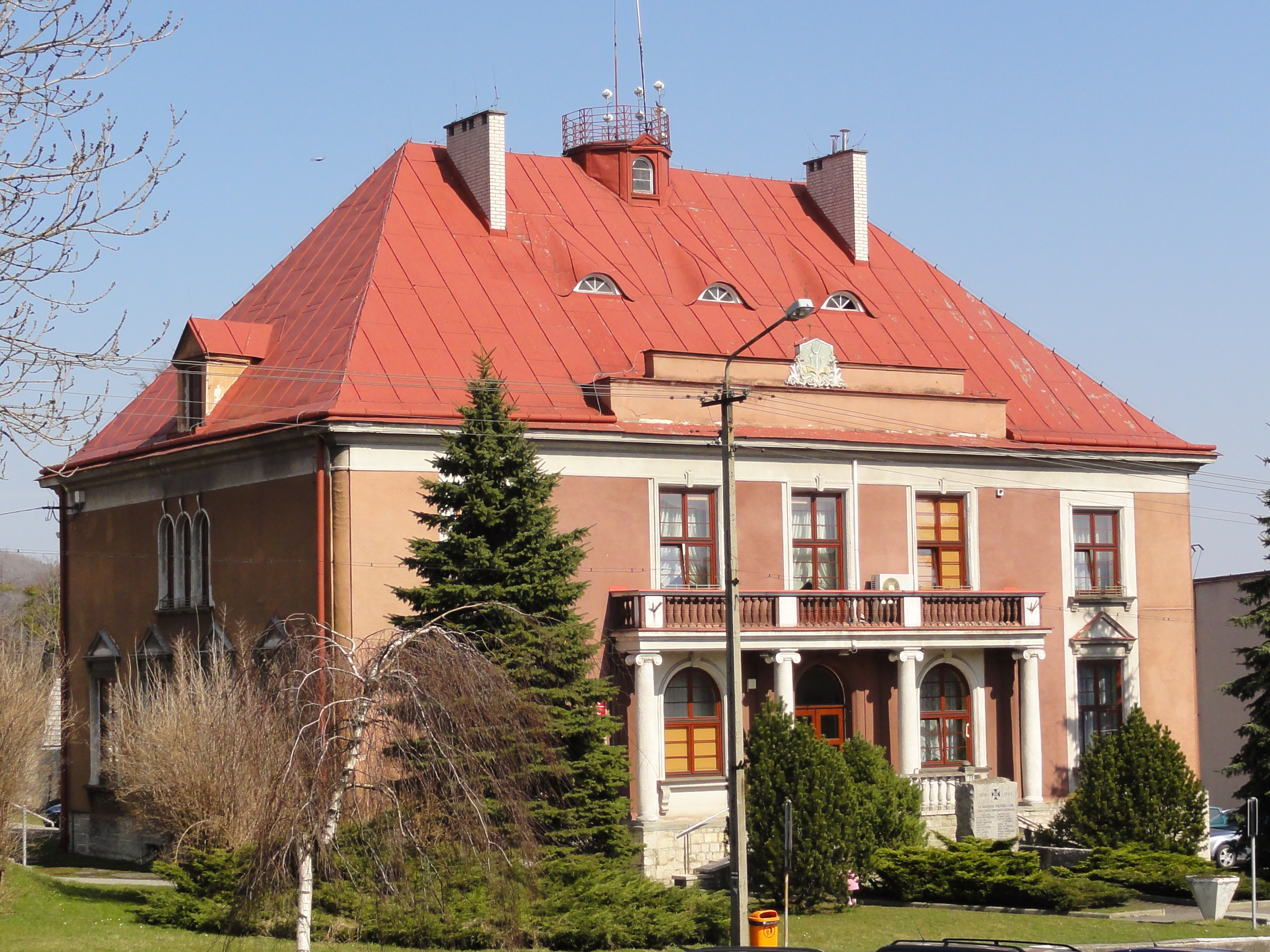 Municipal office in Goleszów